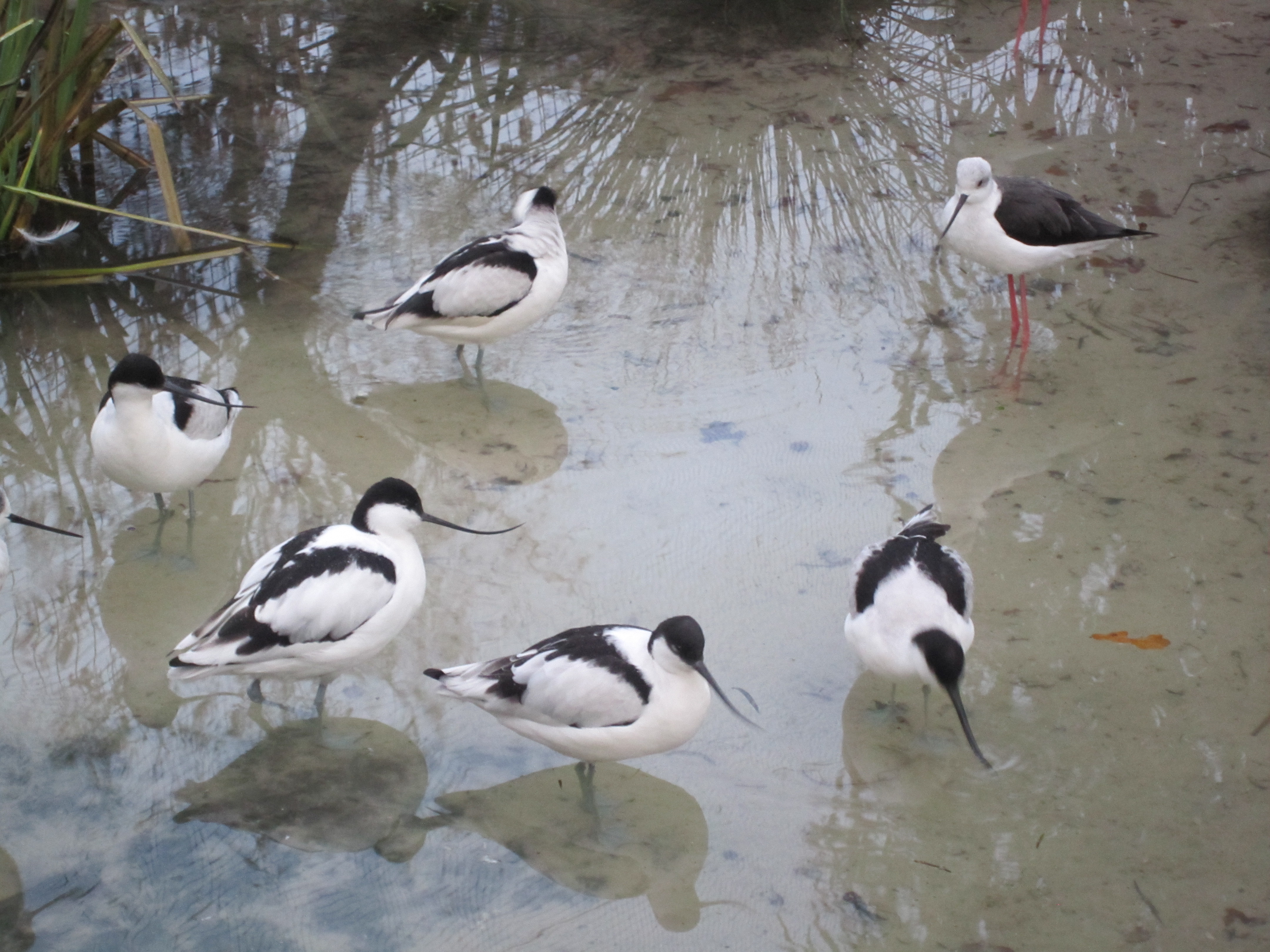 Recurvirostra avosetta in Nordhorn's zoo